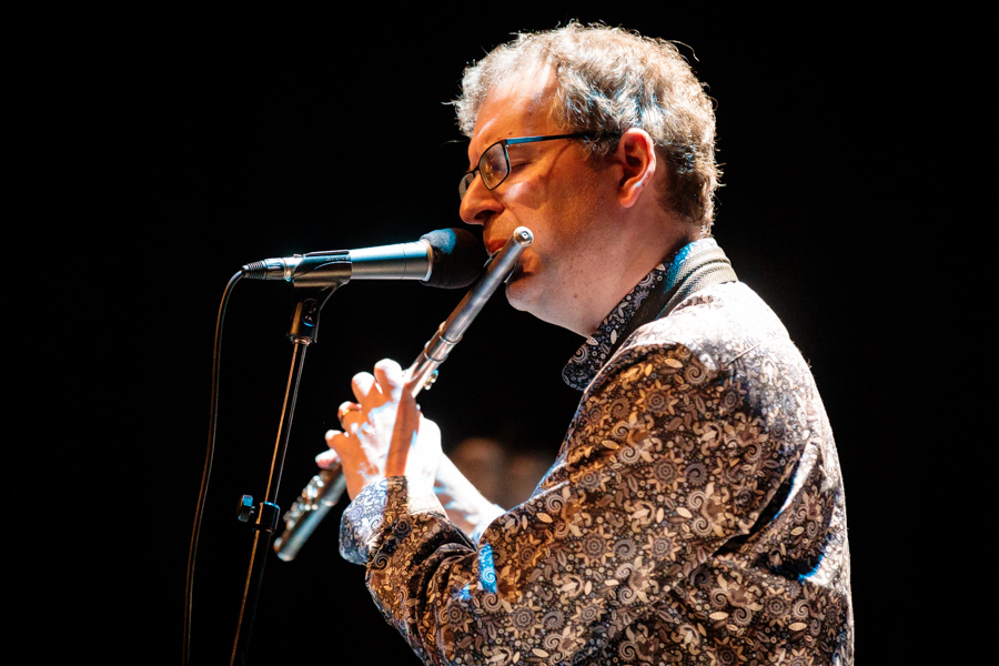 Theo Travis with Soft Machine at Cosmopolite. The concert took place on 06. September 2018 in Oslo. Lineup: John Etheridge (guitar) Theo Travis (tenor saxophone and keyboard) Roy Babbington (bass guitar) John Marshall (drums)